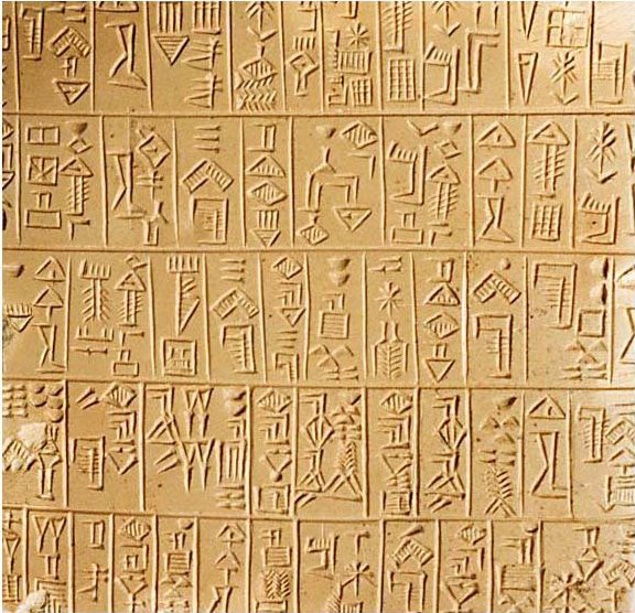 Schøyen Collection MS 3029. Sumerian inscription on a creamy stone plaque, 9.2 x 9.2 x 1.2 cm, 6+6 columns, 120 compartments of archaic monumental cuneiform script by an expert scribe. The image is a detail, showing about half of one face of the plaque. The text is a list of "gifts from the High and Mighty of Adab to the High Priestess, on the occasion of her election to the temple".